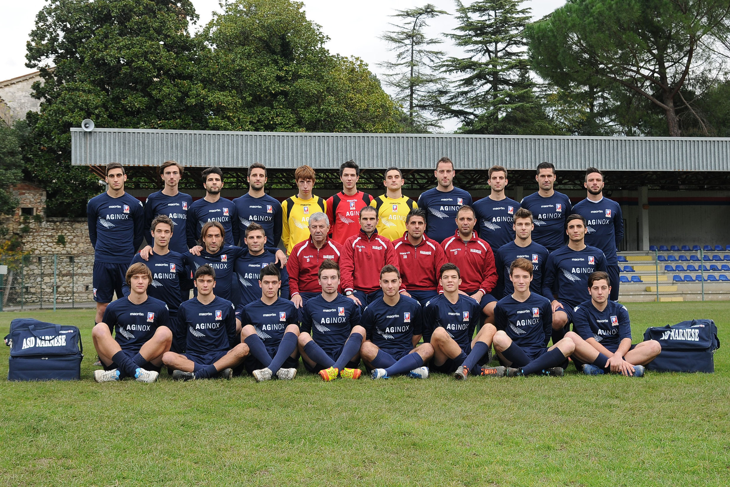 La Narnese vincitrice del campionato di Eccellenza 2012-13. Ultima promozione in serie D - In alto da sin.: Gaggiotti; Alvisini; Raggi; Bobboni; Mazzucconi; Nini; Schiaroli; Quondam Gregorio; Angeluzzi; Poggiani; Donati. Al centro da sin.: Ceccarelli; Manni; Silveri; Di Domenico (all. port.); Trippini (all.); Sabatini (all. in 2°); Ciotti (mass.); Martellotti; Lupi. In basso da sin.: Straminelli; Borrello; Siragusa; Capocci; Venturini; Proietti; Baratta; Ciferri.